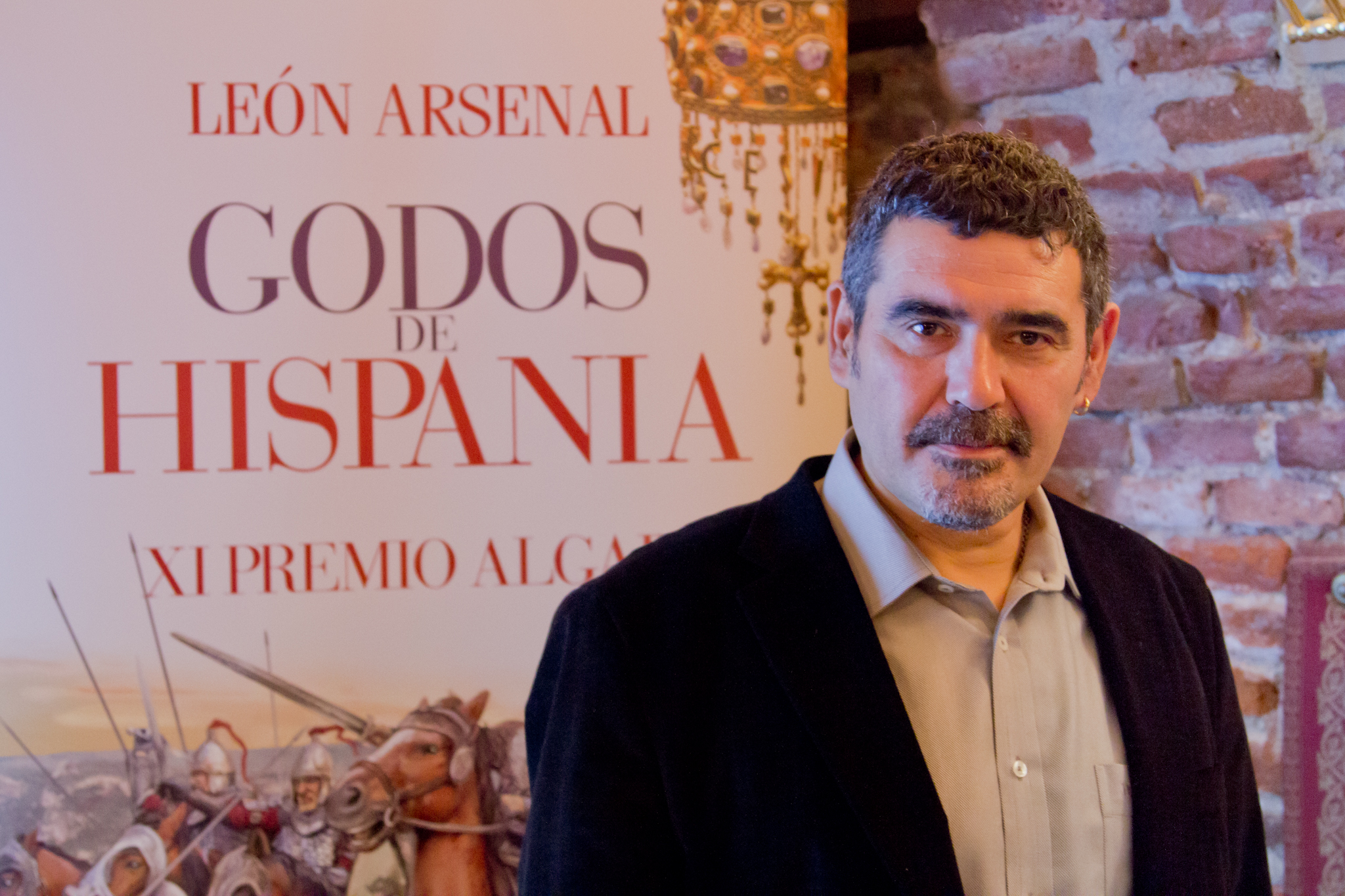 Spanish writer León Arsenal at the premiere of his historical essay Goths of Hispania.